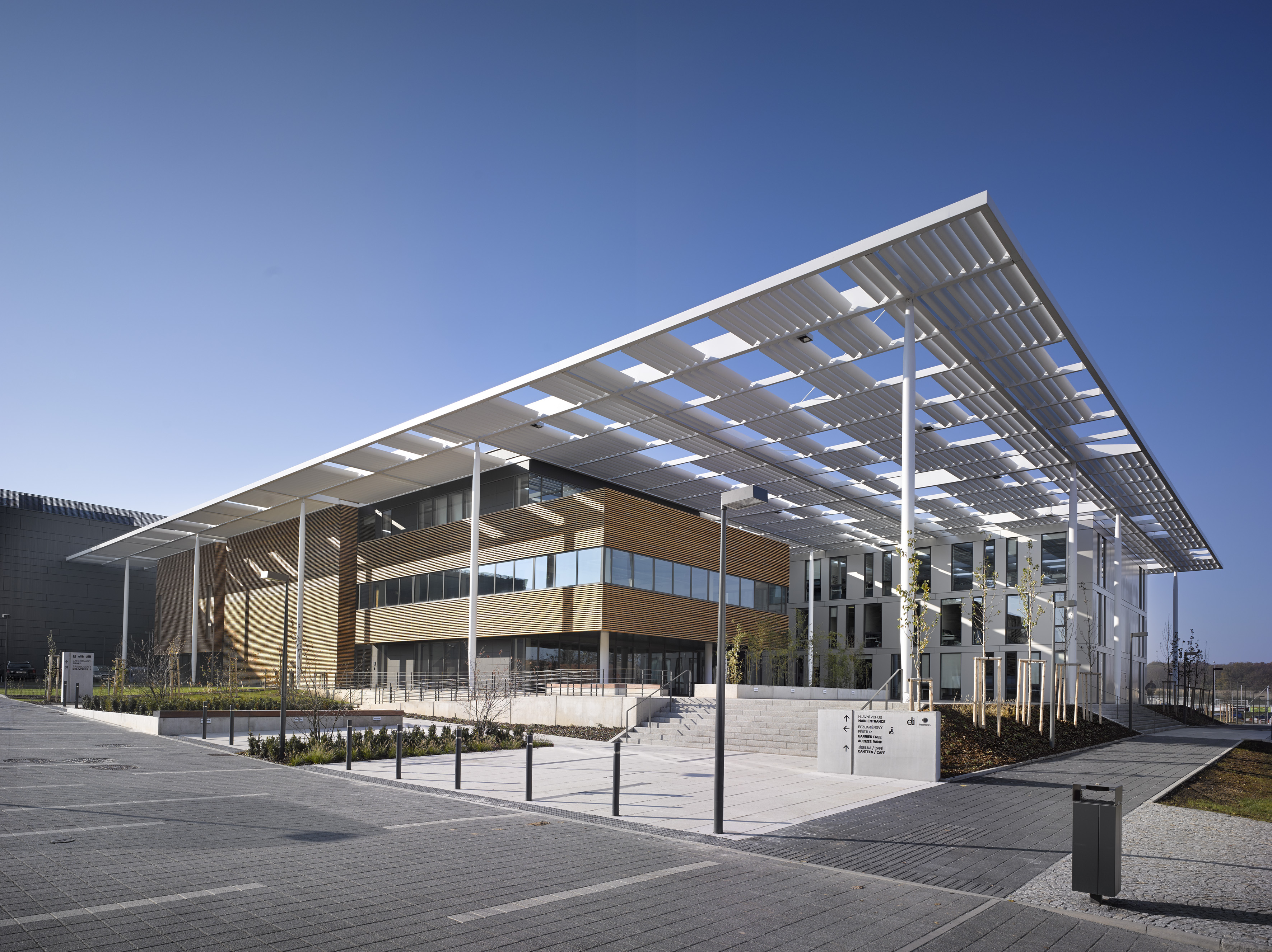 ELI Beamlines building